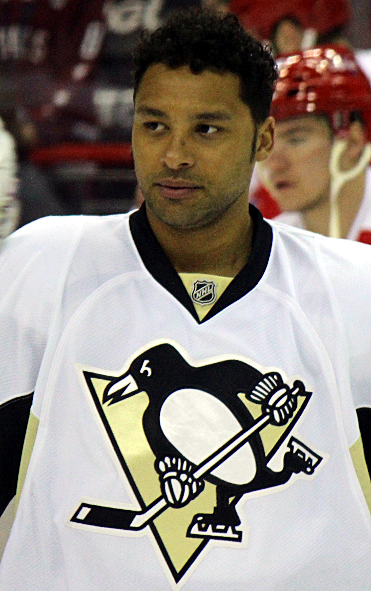 Pittsburgh Penguins defenseman Trevor Daley during a game against the Washington Capitals, Thursday, April 28, 2016, at Verizon Center in Washington, D.C.